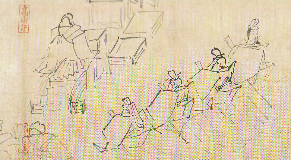 Panel from the fourth scroll of Chōjū-jinbutsu-giga, noblemen attending a Buddhist ceremony with a monk performing (left).